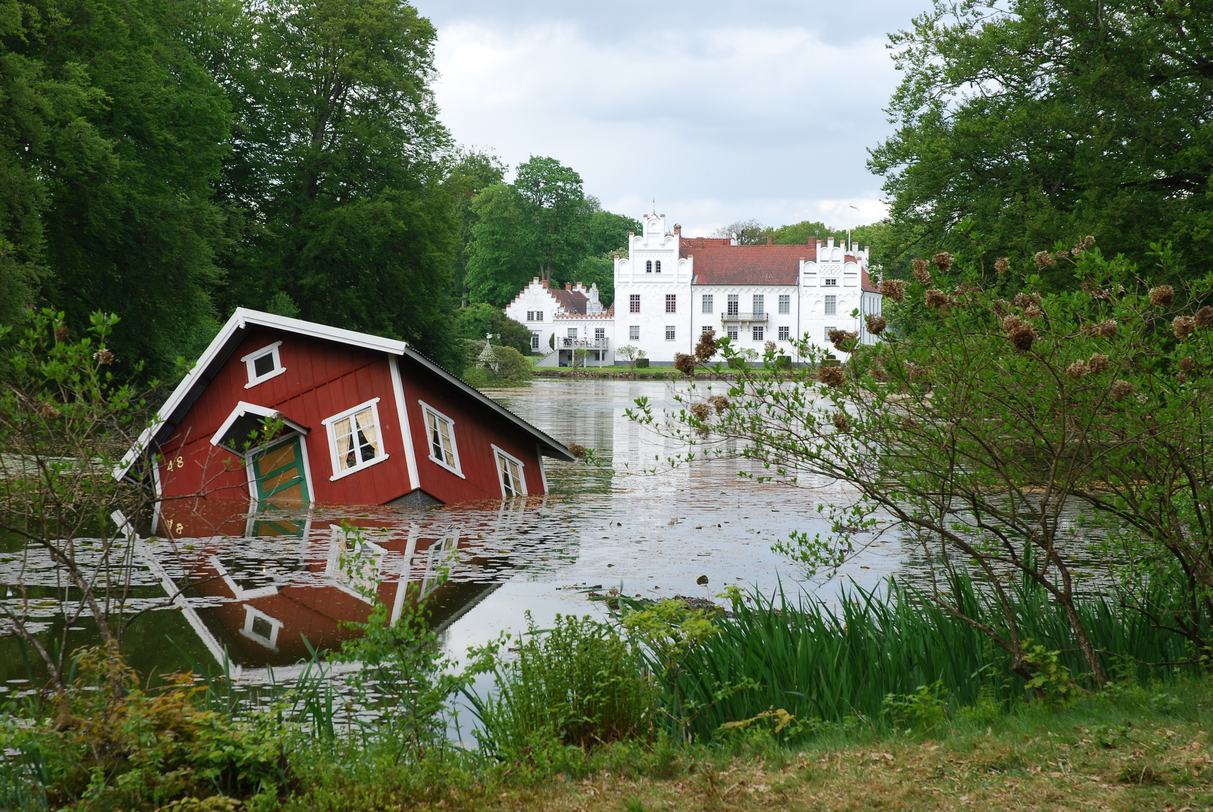 Wanås Castle in Sweden. In the foreground the installation Atlantis by Tea Mäkipää and Halldor Úlfarsson.